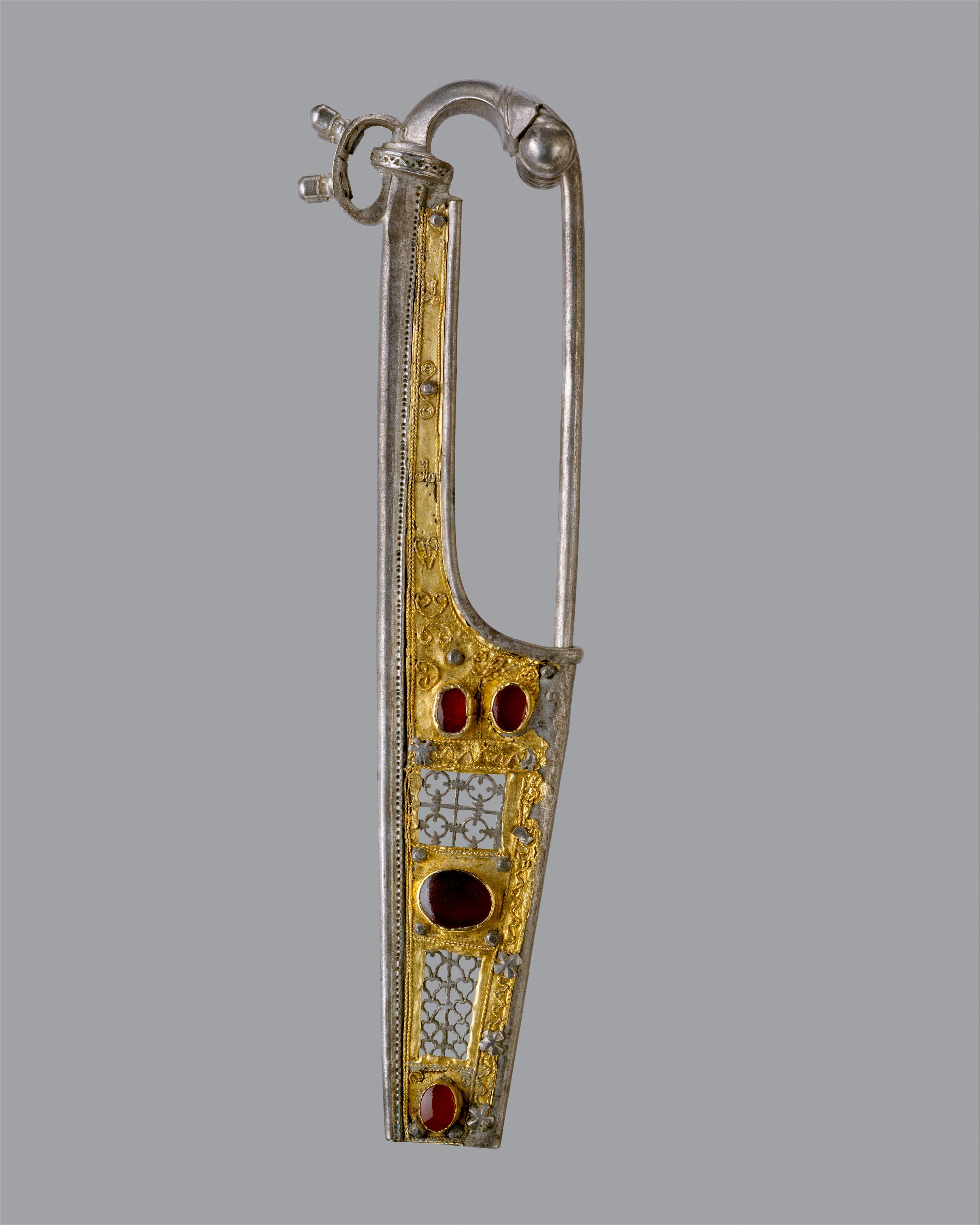 Roman; Brooch; Metalwork-Silver